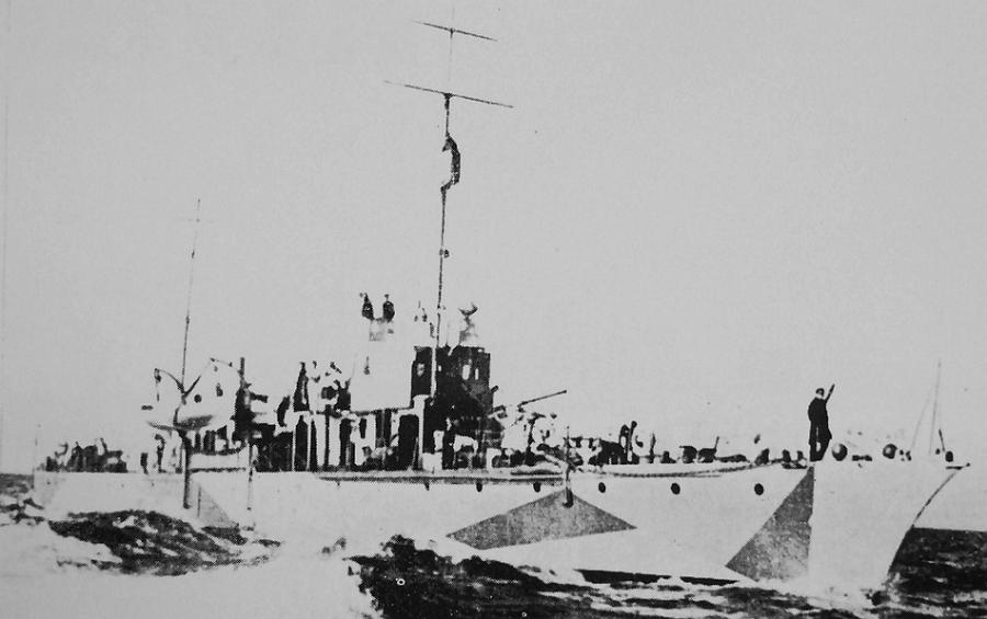 NMS Locotenent-comandor Stihi Eugen.